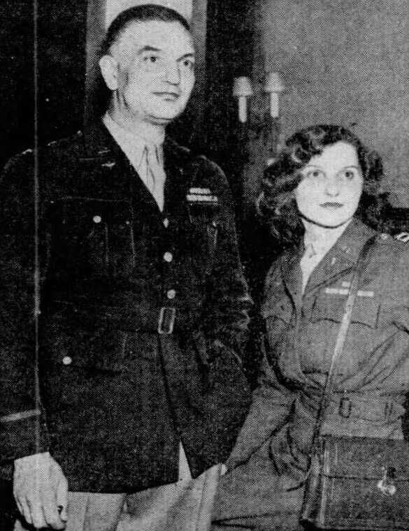 Alice and Huntington Sheldon, January 1946